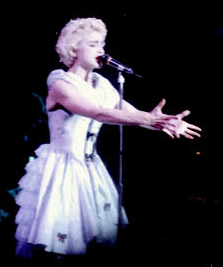 Wembley Stadium Londen Engeland juli '87